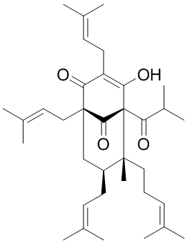 BPAPs Hyperforin, drawn with starter acid right